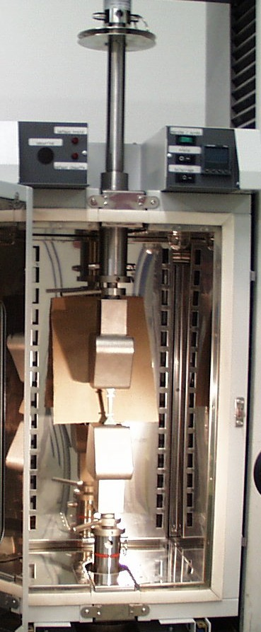 Non-contact extensometry testing: dumbbell specimen (with its two lines for video recognition with a camera) tightened between the jaws of a tensile tester.